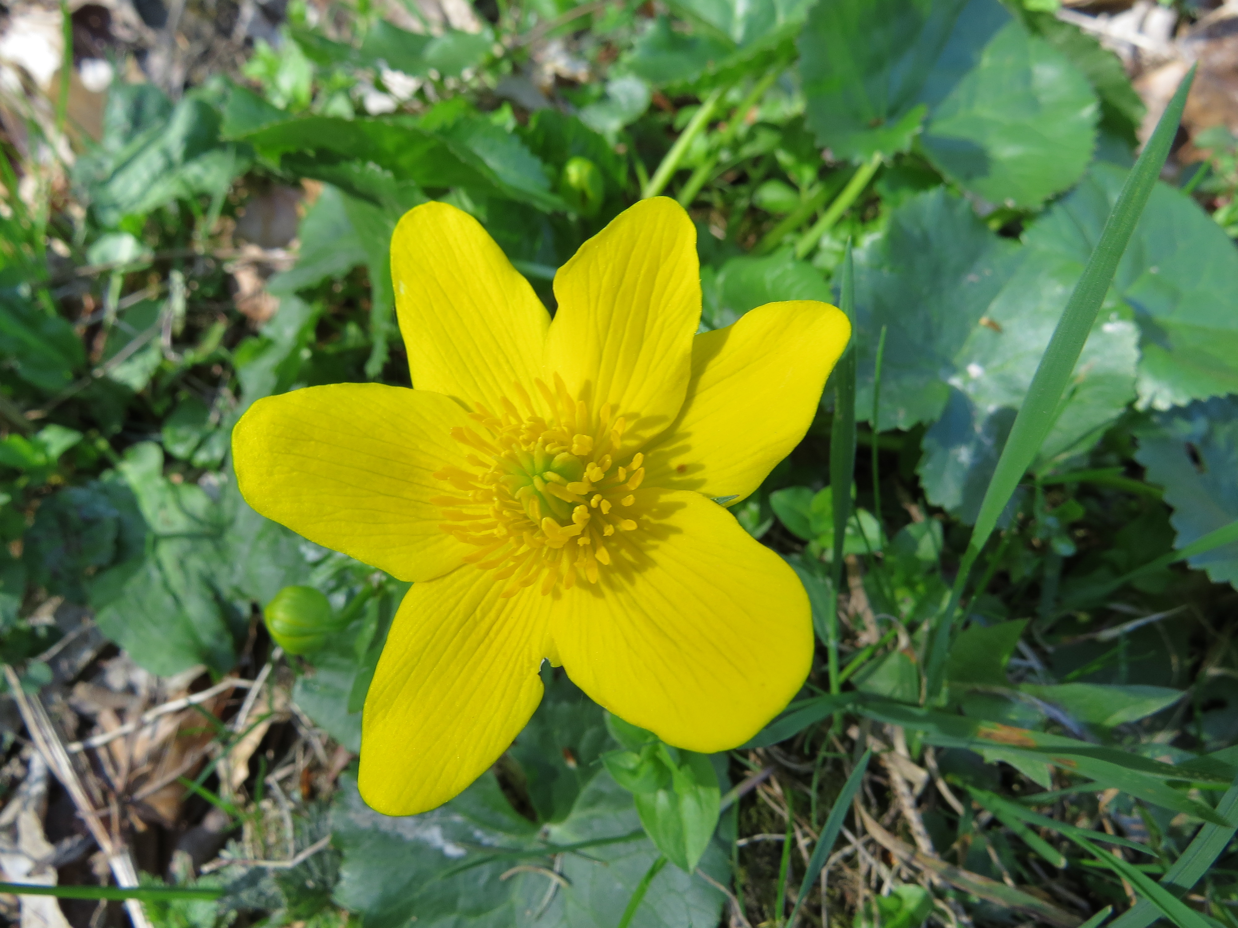 Caltha palustris (marsh-marigold) at Jägerlacke, Texingtal, Austria